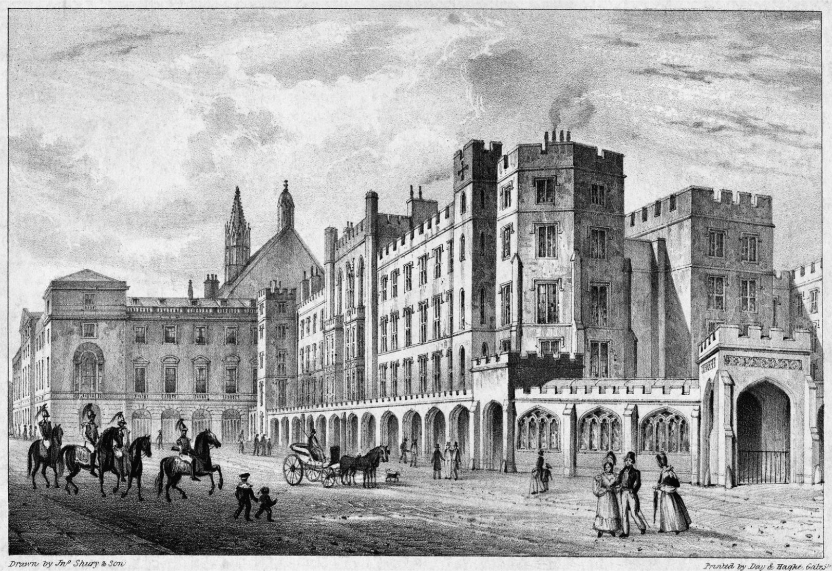 Drawn by J. Shury & Son, Printed by Day & Haghe